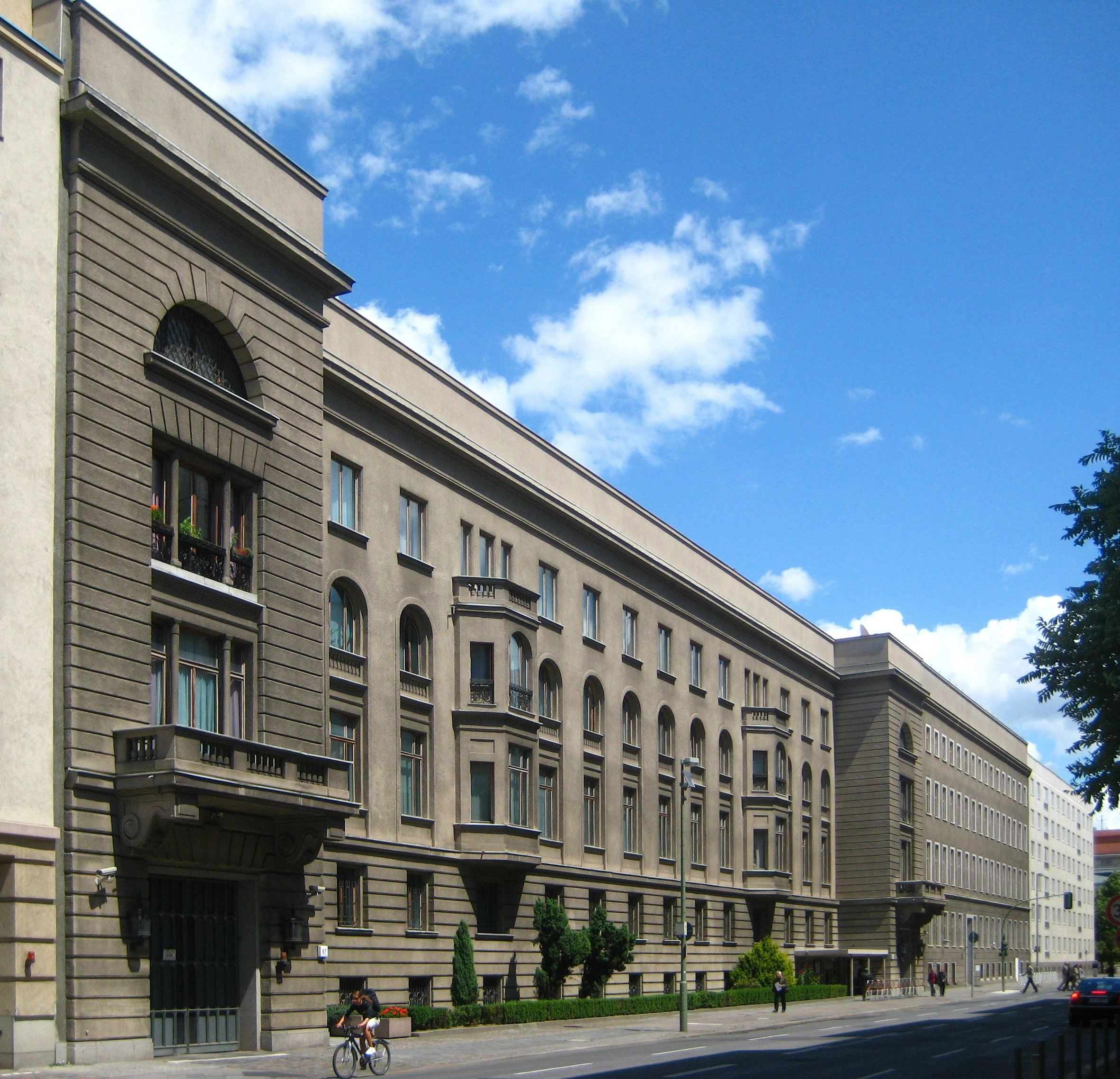 Embassy of the Russian Federation in Berlin-Mitte; facade on Behrenstraße.